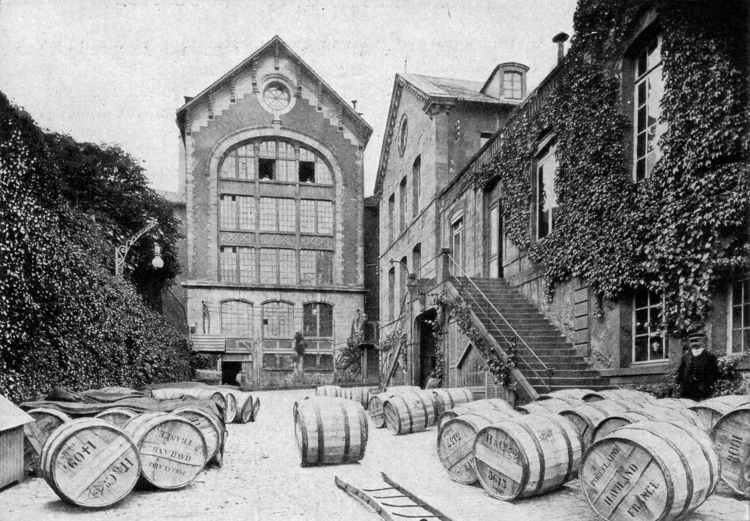 BARRELS OF PORCELAIN AT THE DOORS OF A FRENCH FACTORY READY FOR SHIPMENT TO THE UNITED STATES: LIMOGES, FRANCE (Manufacture de porcelaine Haviland). Those industrial institutions whose skilled workmen were required neither for the trenches nor for the munition factories France has endeavored to operate without interruption. The ceramic establishments which were not requisitioned for the manufacture of crucibles needed in producing high explosives have continued to make beautiful porcelain, thus contributing their bit toward the financial welfare of the nation.